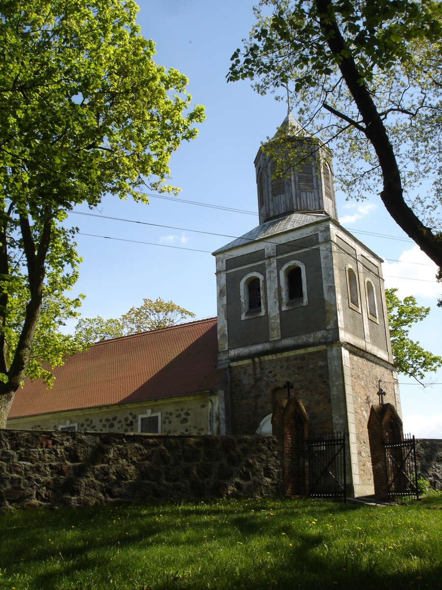 Our Lady of Częstochowa church in Krępcewo (Stargard County), Poland